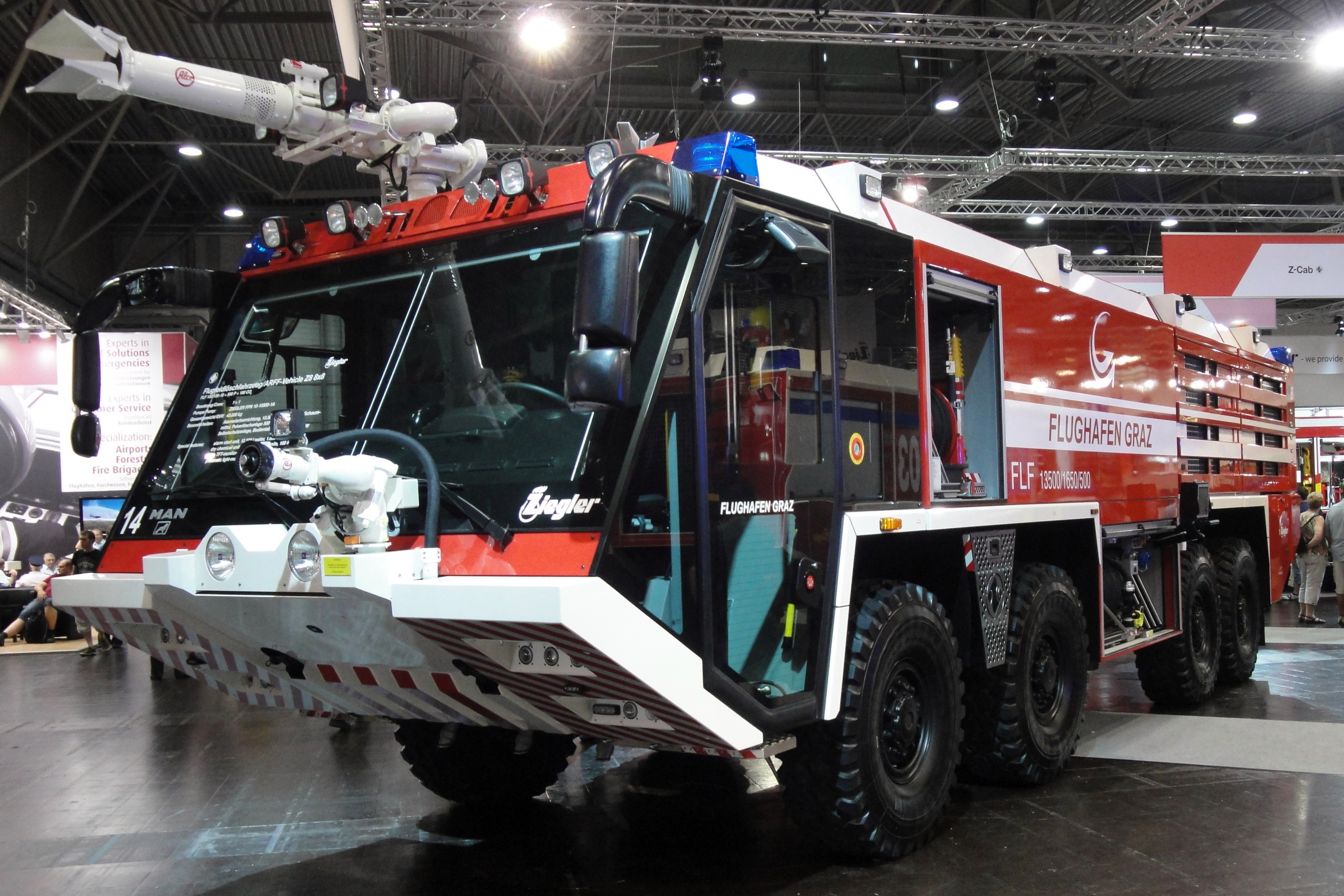 Ziegler Z8 airport crash tender Graz Airport, Interschutz 2010